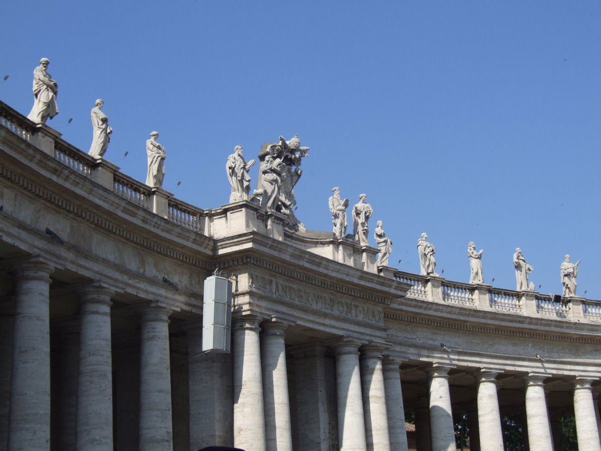 St. Peter's Basilica, Rome, Italy